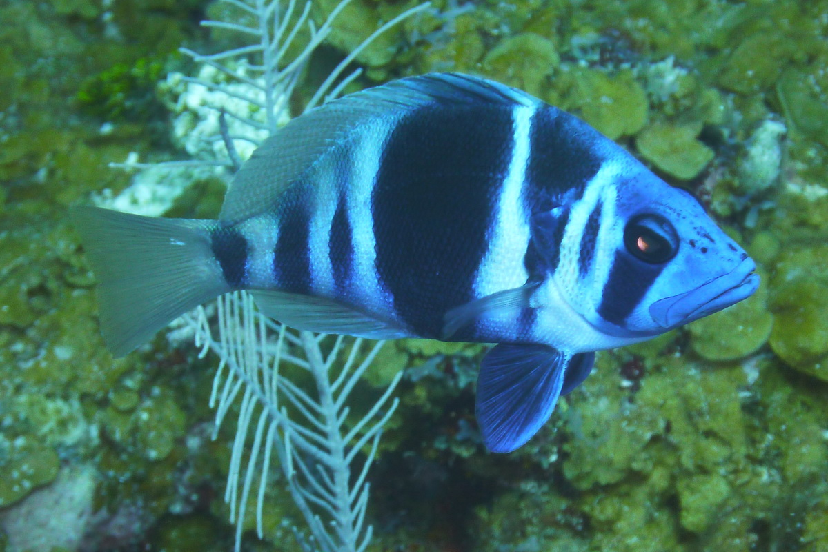 Indigo Hamlet, Grand Cayman, near North Wall